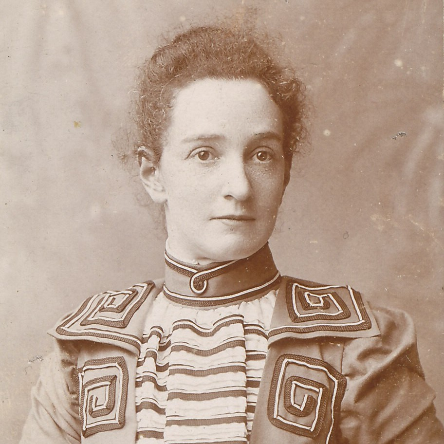 Grace Eyre Woodhead (1864–1936), philanthropist and mental health reformer, by E.Wheeler junior who died in 1930